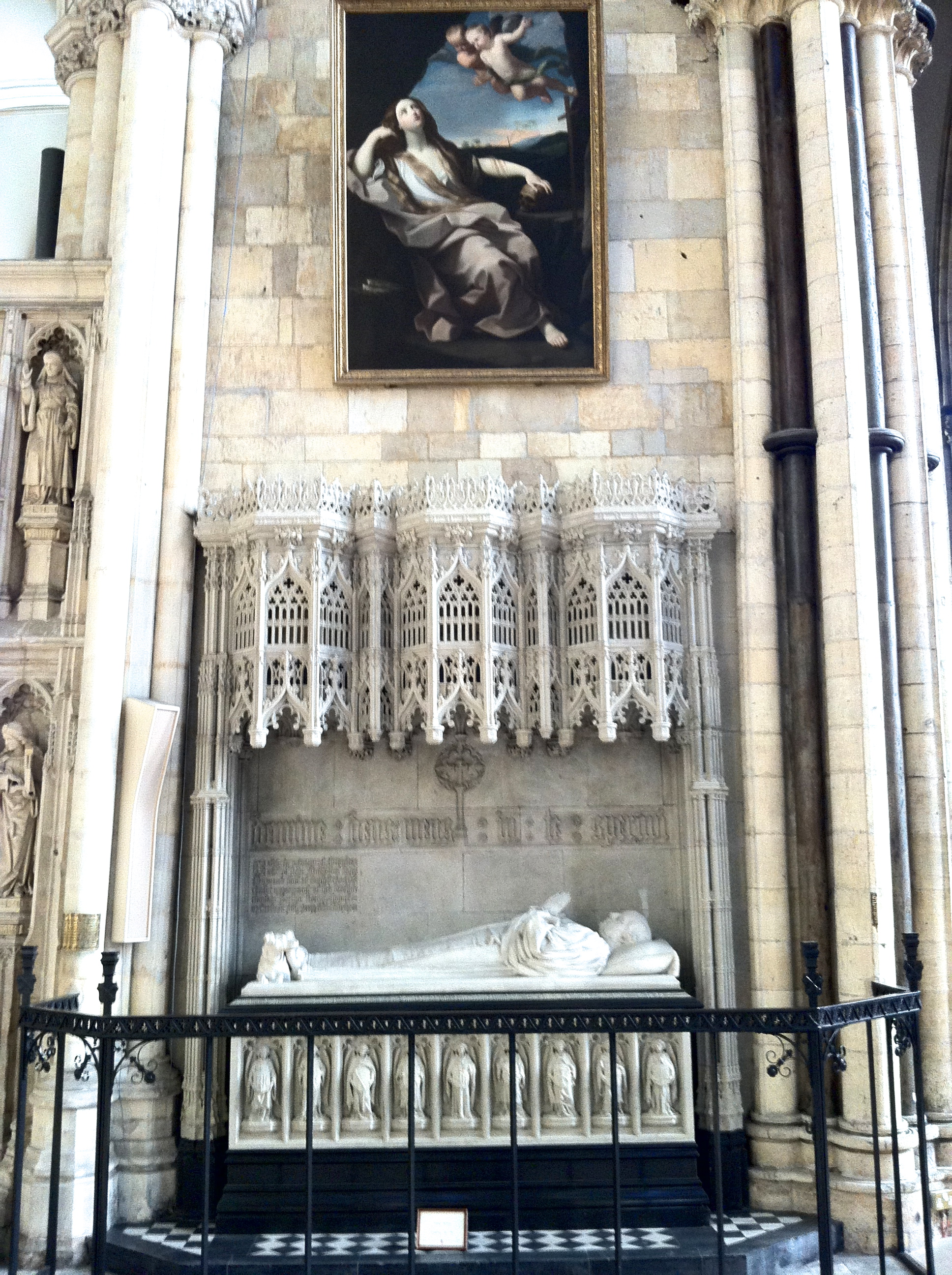 Memorial to Archbishop William Thomson (d.1890) in the south transept at York Minster. Designed by George Frederick Bodley; the effigy by Sir John Hamo Thornycroft RA and other carving by Farmer & Brindley.